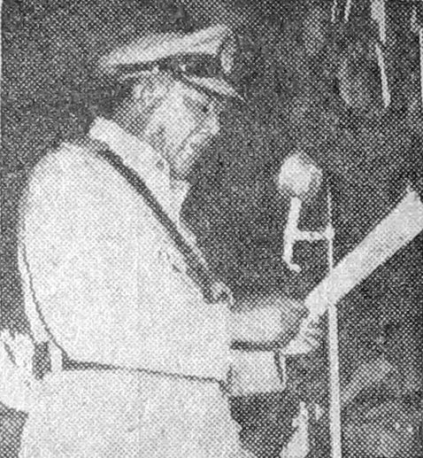 Sukarno Djojonegoro giving the opening speech at the first Police Athletics Festival